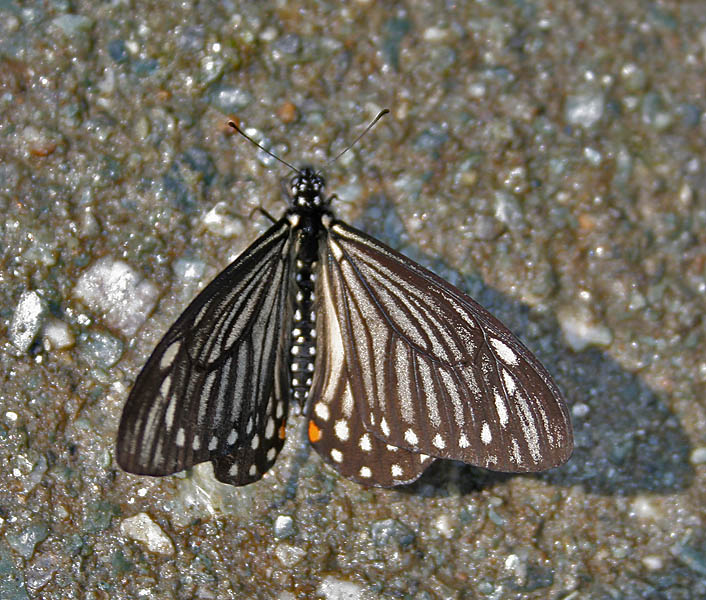 Lesser Mime Chilasa epycides at Samsing in Darjeeling district of West Bengal, India.